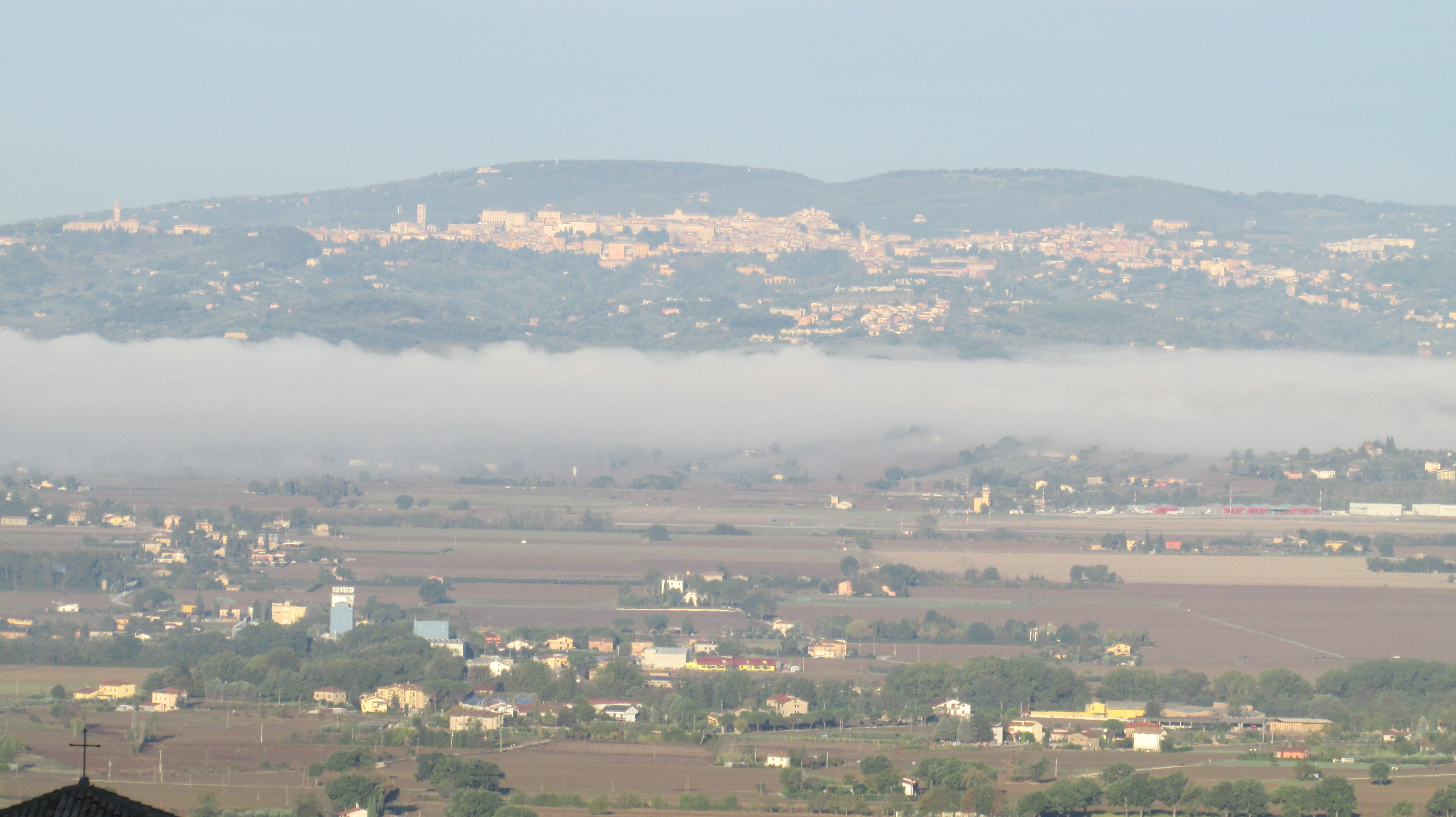 Perugia as seen from Assisi, Italy across the Tevere river valley.